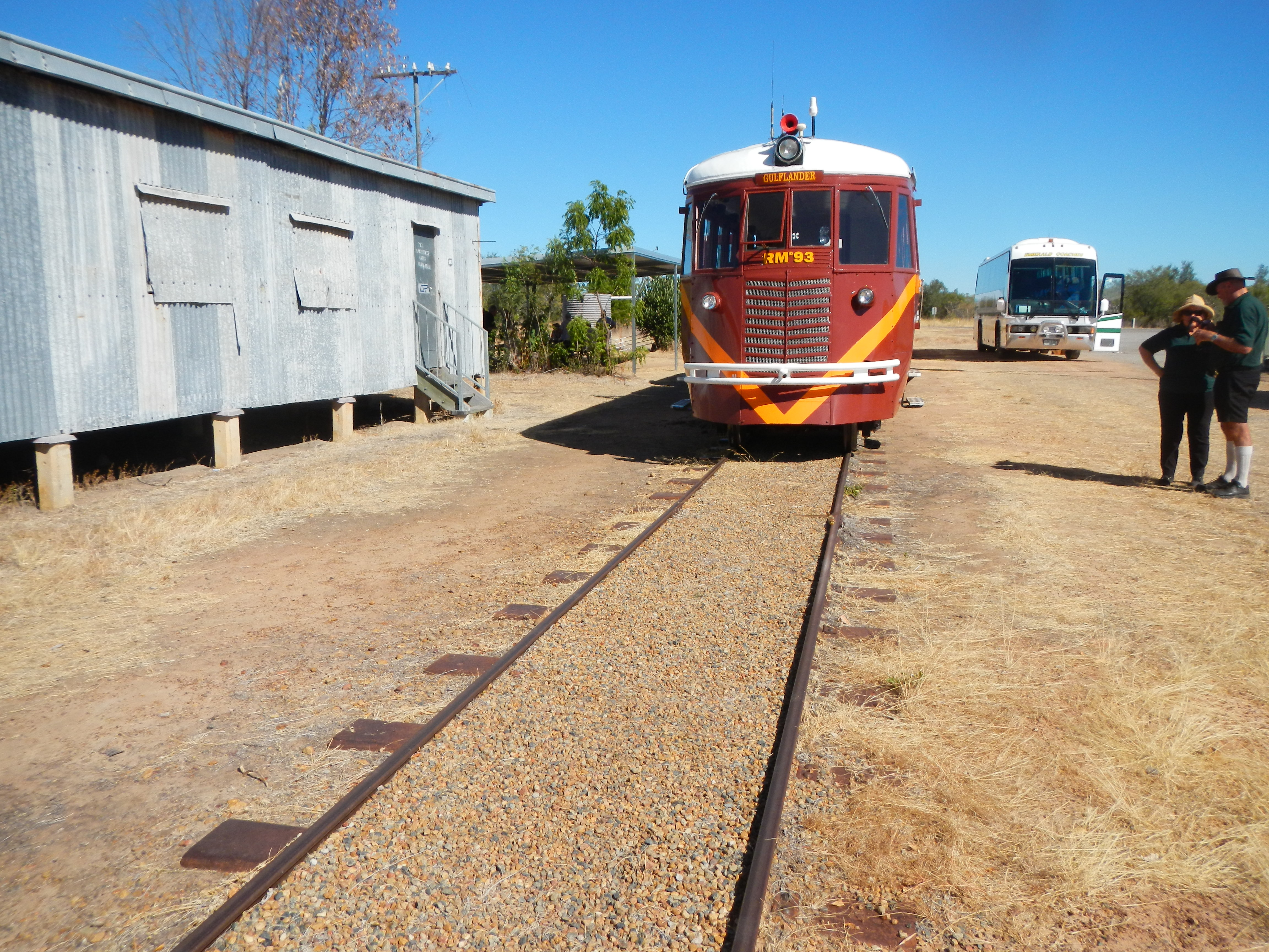 Train Stop at Blackbull